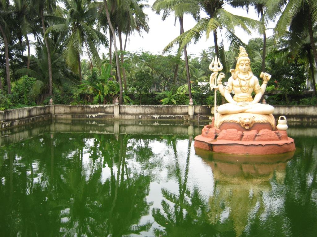 Lake near kundeshwar temple